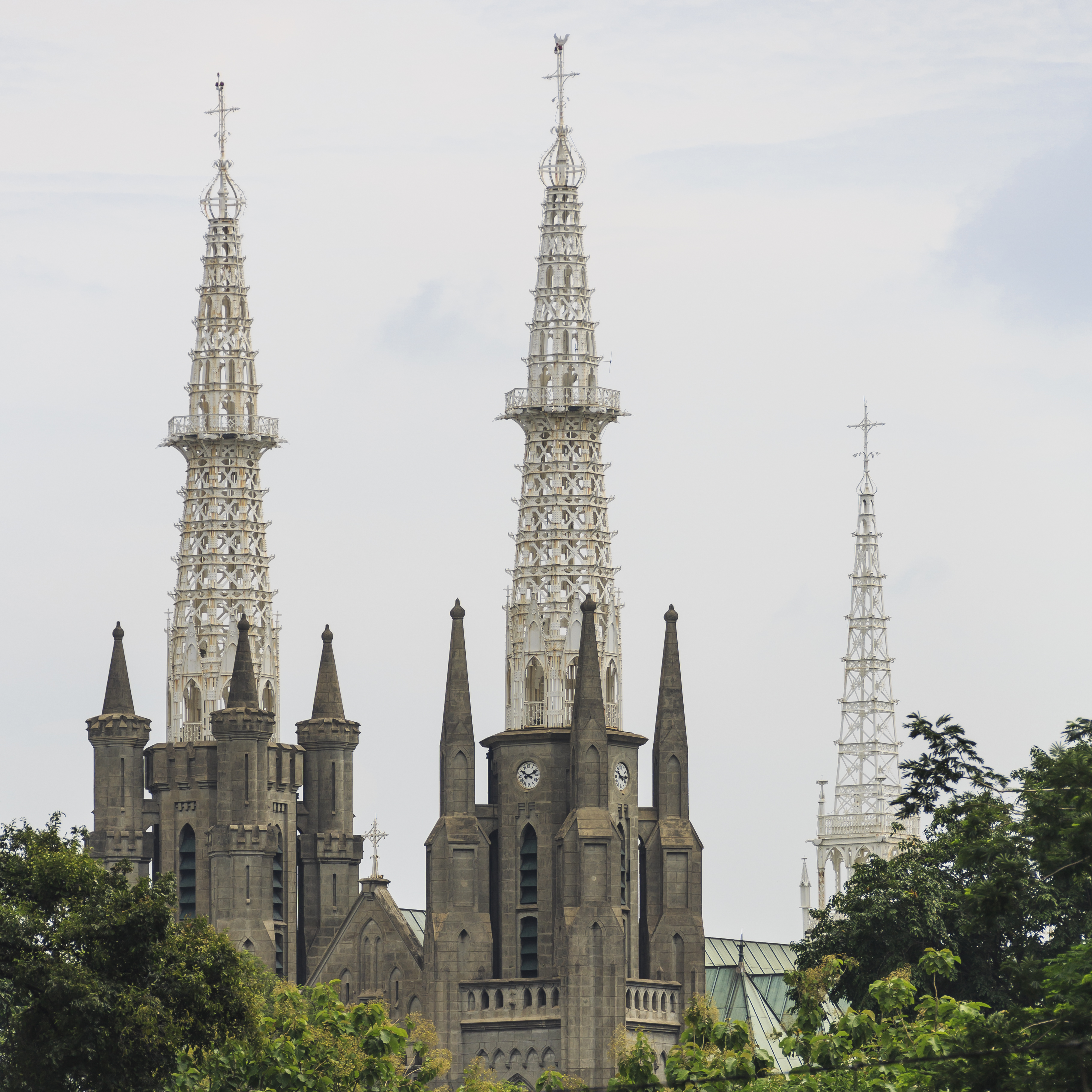 Jakarta, Indonesia: Spires of Jakarta Cathedral.